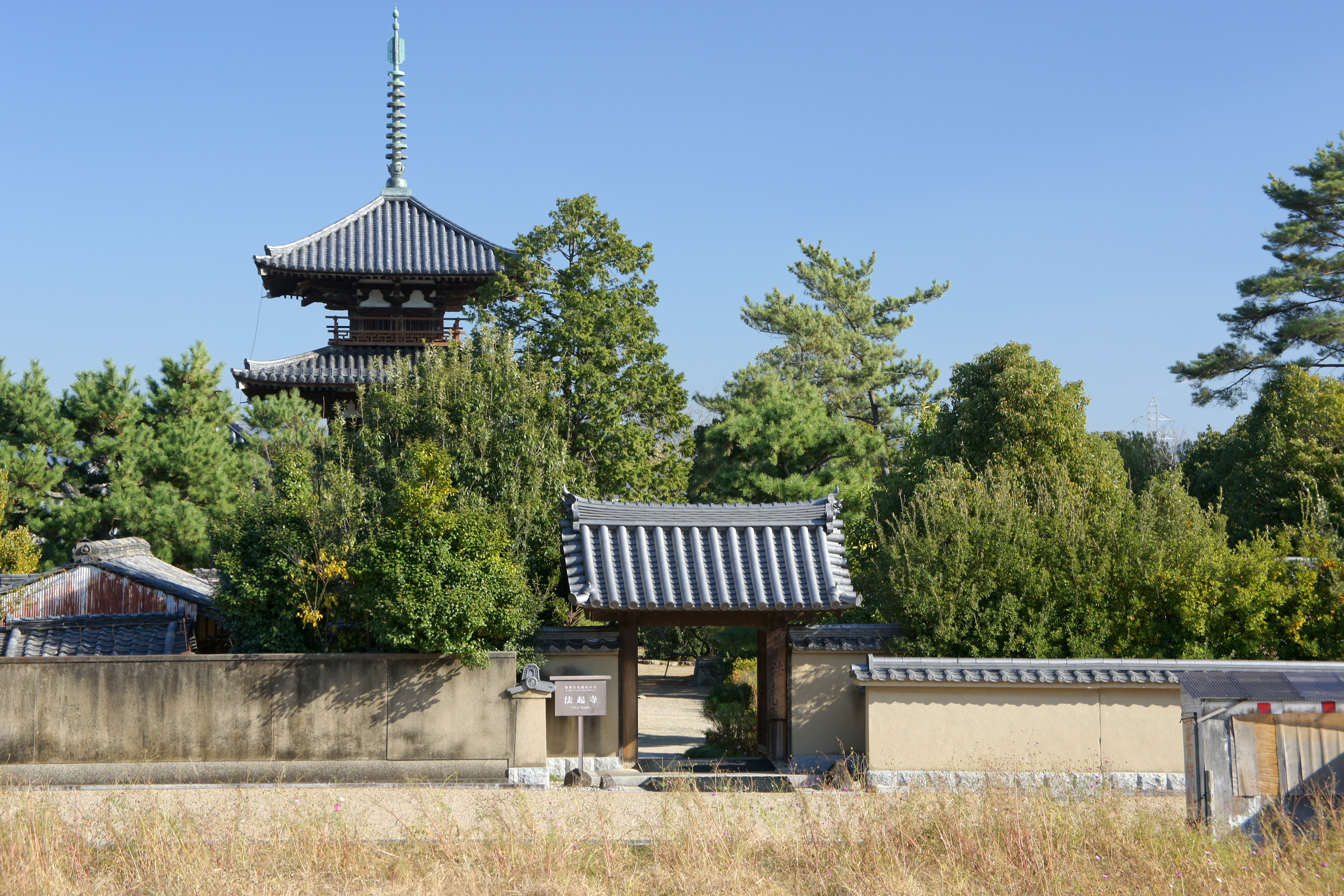 Hokki-ji is a Buddhist temple in Ikaruga, Nara prefecture, Japan. It was registered as part of the UNESCO World Heritage Site "Buddhist Monuments in the Hōryū-ji Area".